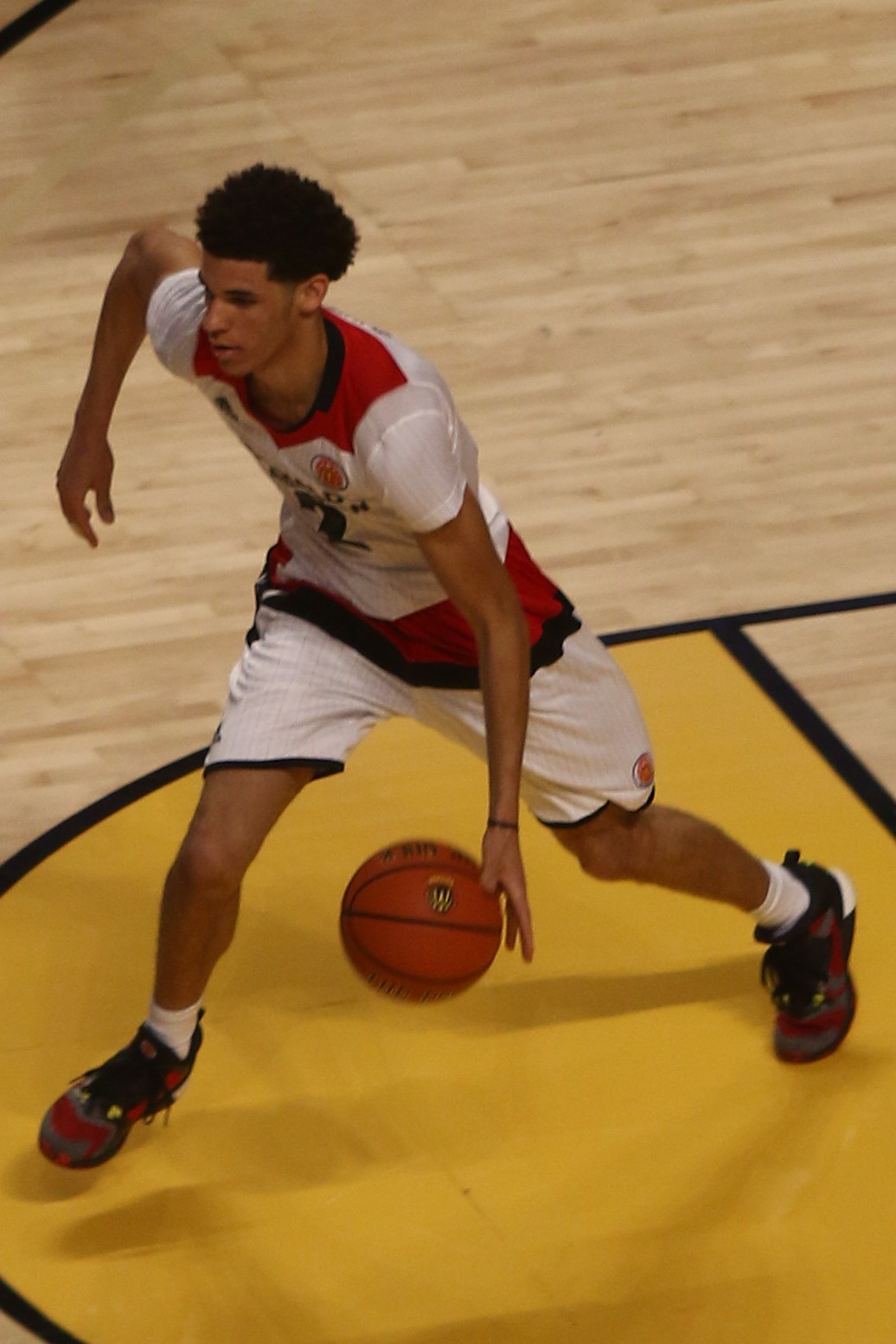 Lonzo Ball at the w:2016 McDonald's All-American Boys Game